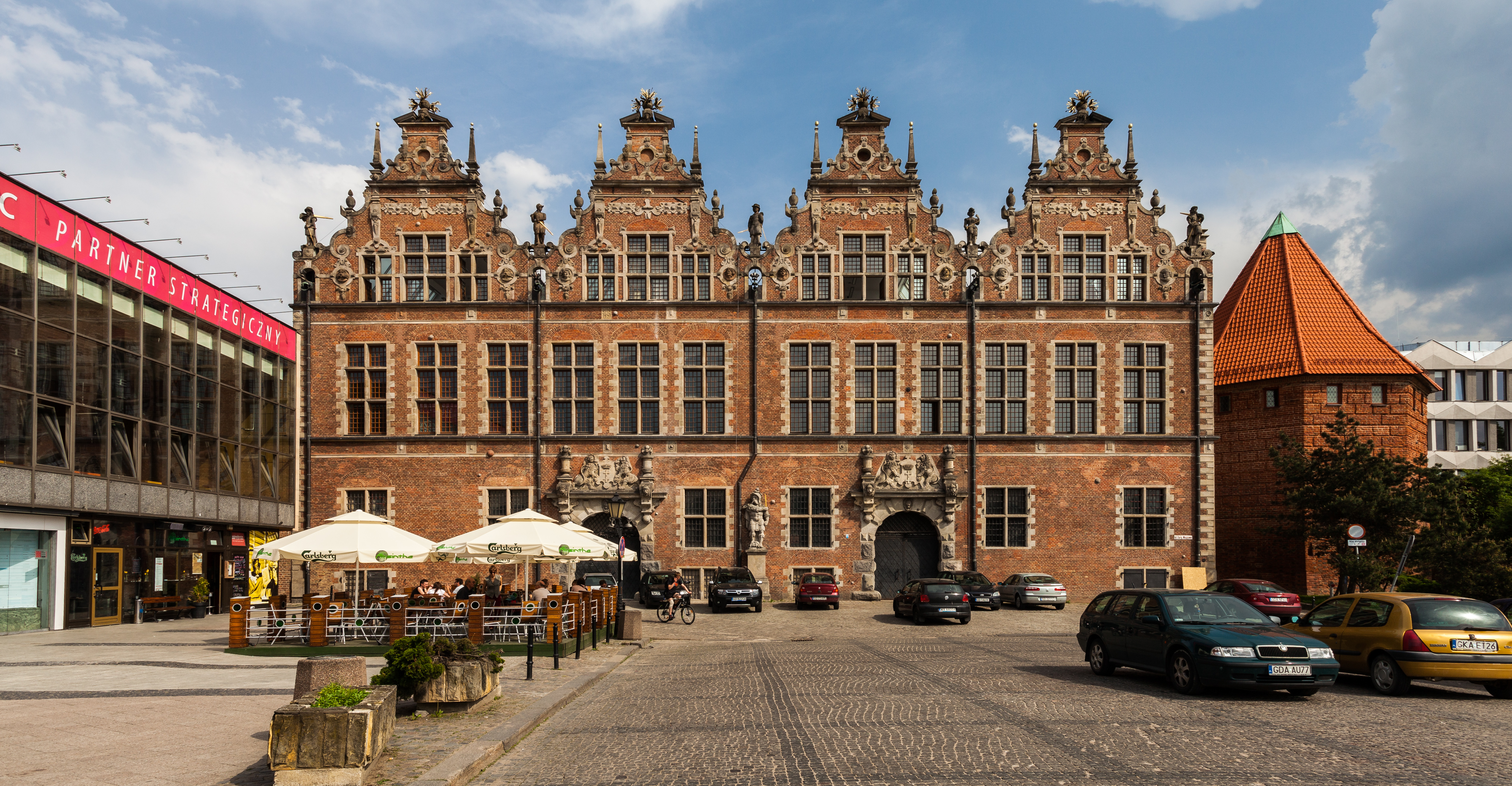 Great Armoury, Gdansk, Poland